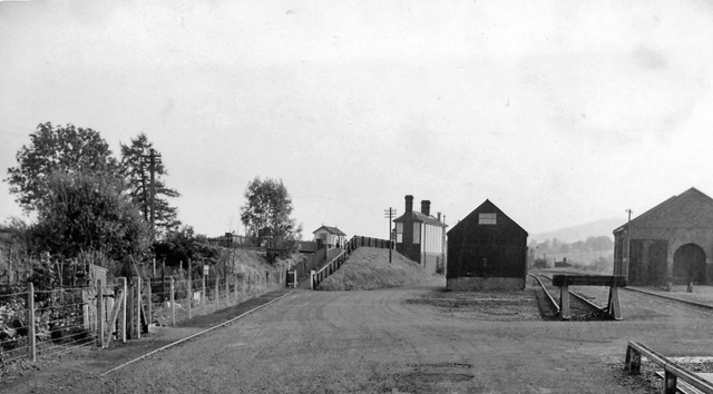 Broome Station, exterior, near to Broome, Shropshire, Great Britain. View SW, towards Knighton, Llandovery and Swansea; ex-London & North Western (Shrewsbury) - Craven Arms - Knighton - Llandovery - Swansea secondary main line. This station and the line (now known as the Heart of Wales Line) are, perhaps surprisingly, still open in 2010.